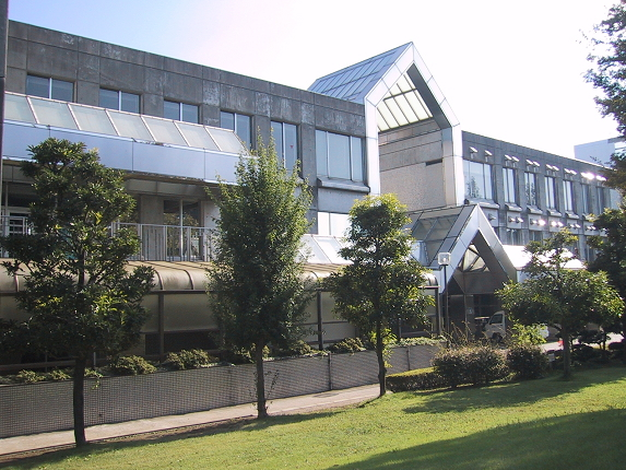 Toyo University Asaka Campus Management Building(東洋大学朝霞キャンパス研究管理棟)